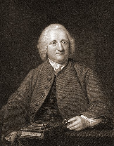 John Dollond, english optician (1706-1761)